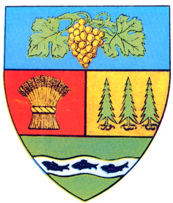 Interwar coat of arms of Bihor County, Kingdom of Romania.